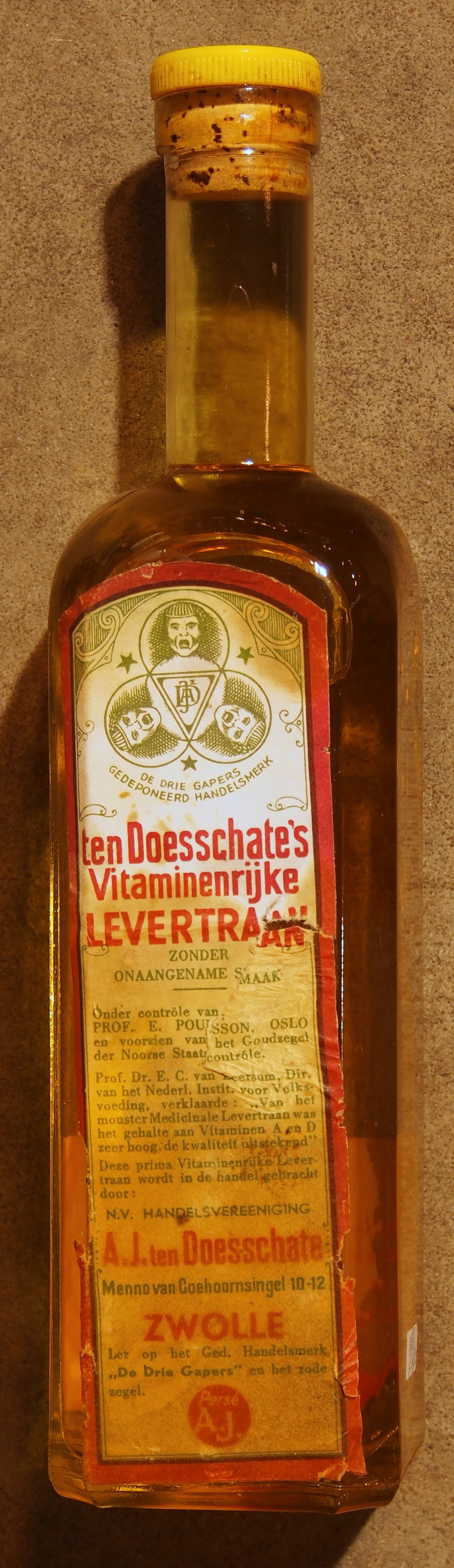 Old product/brand of a Dutch company that does not exist anymore. OLYMPUS DIGITAL CAMERA